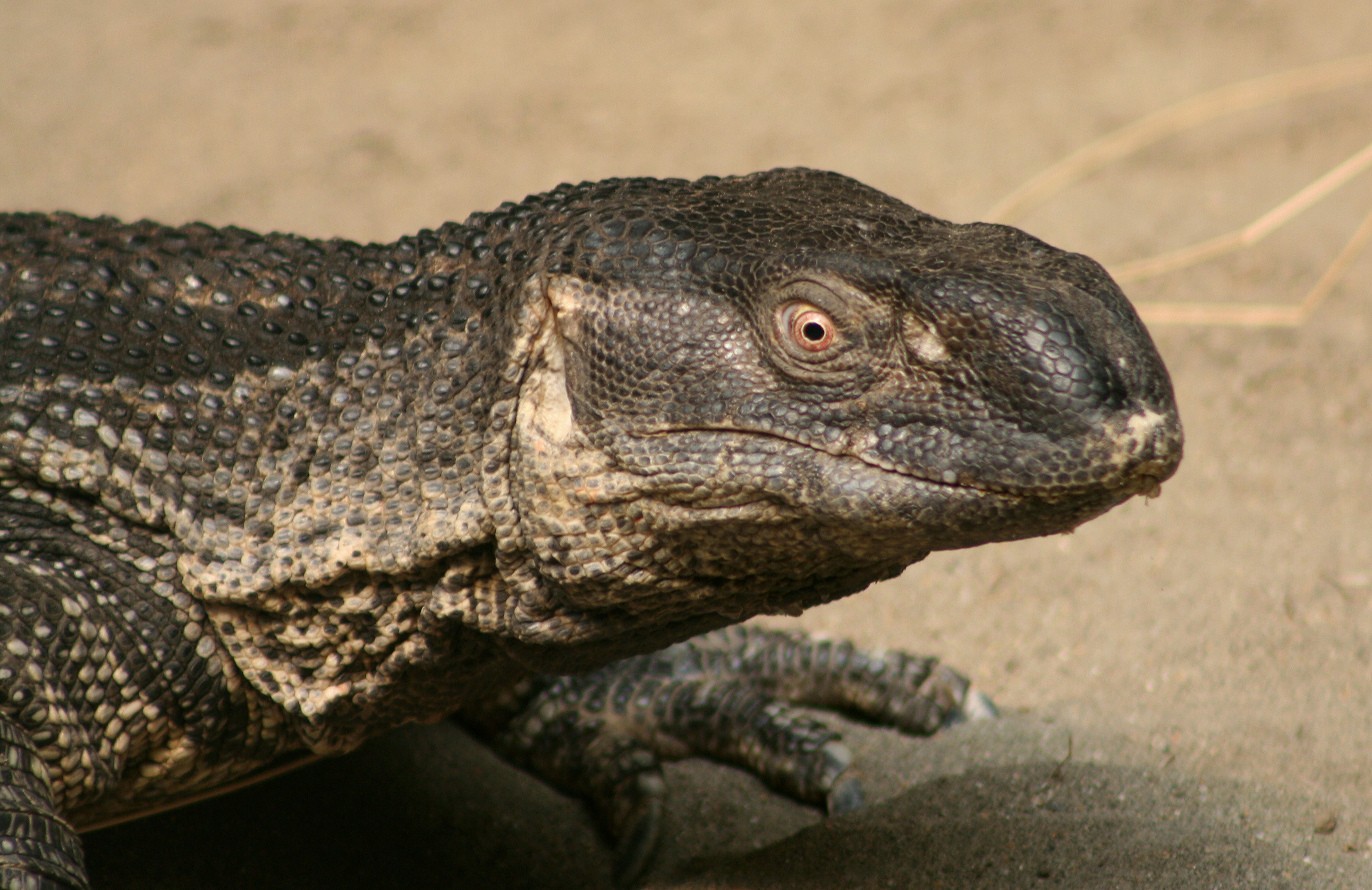 White-throated monitor (Varanus albigularis albigularis) at the Oakland Zoo in California.